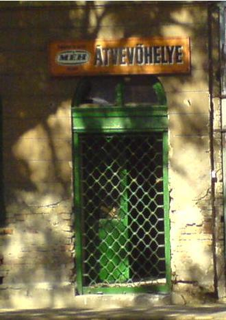 "MÉH" means "Melléktermék- és Hulladékhasznosító Vállalat" i.e. Secondary Product and Waste Material Processing Company. It was a state owned company created after WW2.